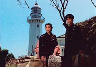 Hideko Takamine and Keiji Sada in 1957 Japanese movie Yorokobi mo kanashimi mo ikutoshitsuki